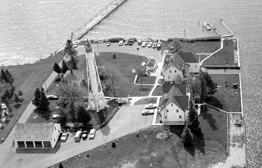 Public Domain statement here; The Sturgeon Bay Canal lighthouse is a lighthouse located near Sturgeon Bay in Door County, Wisconsin.